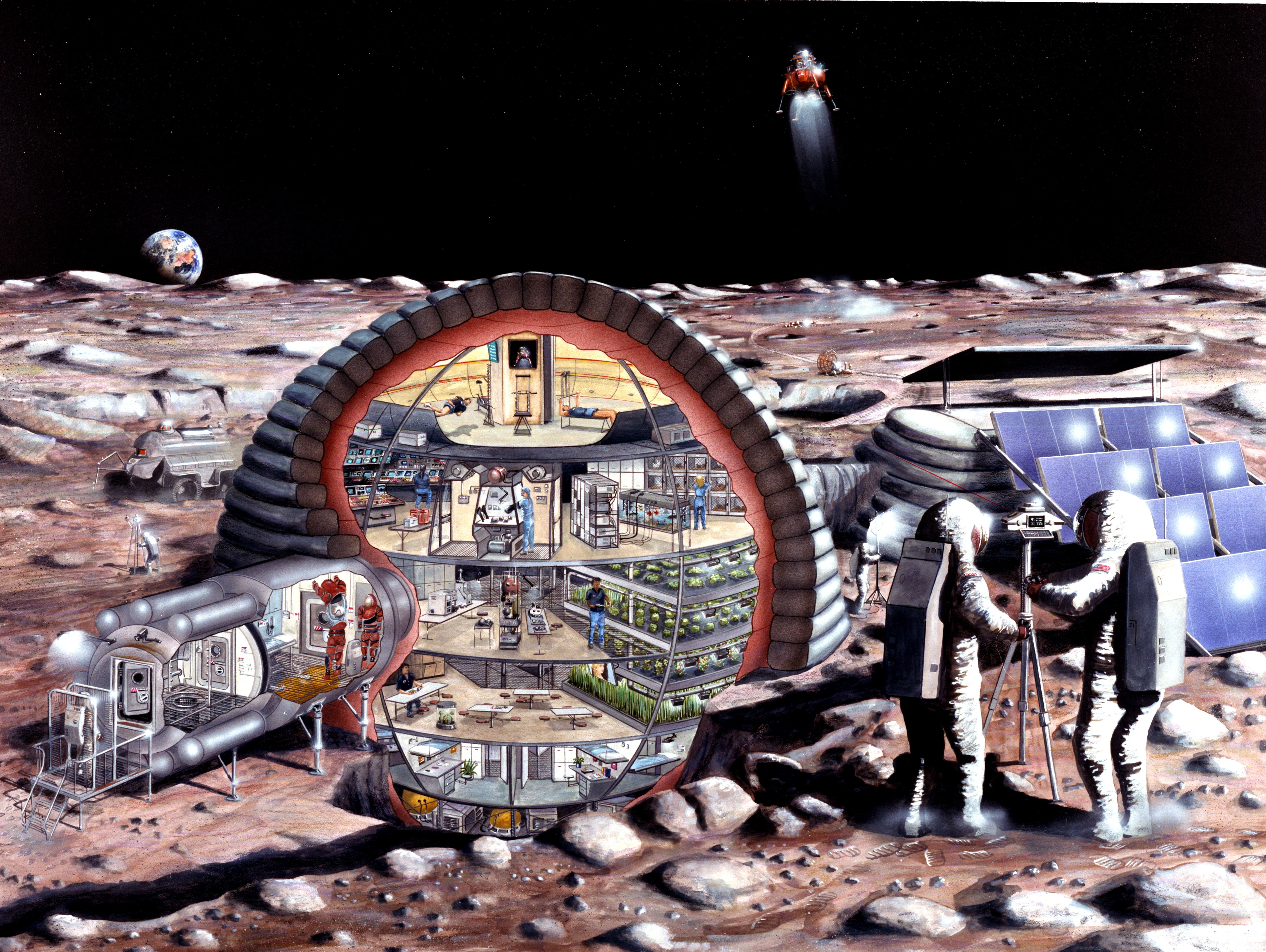 Inflatable module for lunar base: With a number of studies ongoing for possible lunar expeditions, many concepts for living and working on Earth's natural satellite have been examined. This art concept reflects the evaluation and study at JSC by the Man Systems Division and Johnson Engineering personnel. A sixteen-meter diameter inflatable habitat such as the one depicted here could accommodate the needs of a dozen astronauts living and working on the surface of the Moon. Depicted are astronauts exercising, a base operations center, a pressurized lunar rover, a small clean room, a fully equipped life sciences lab, a lunar lander, selenological work, hydroponic gardens, a wardroom, private crew quarters, dust-removing devices for lunar surface work and an airlock.